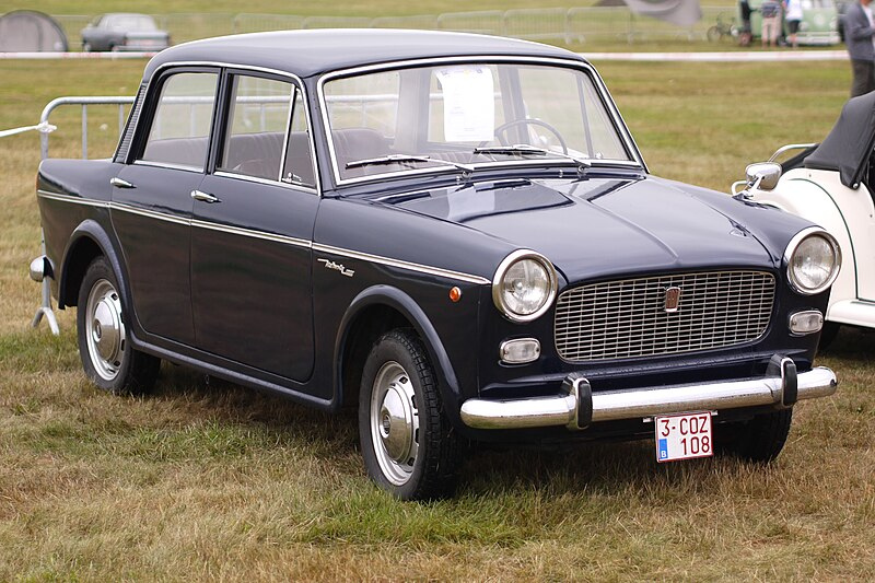 Fiat 1200 Nettunia, Schaffen Diest Fly-Drive 2013 The Fiat "Nettunia" 1200 was a "special edition" Fiat 1100, produced by Fiat for sale in the Benelux countries and featuring a larger 1221cc engine (wider bore (cylinder diameter) / same stroke)